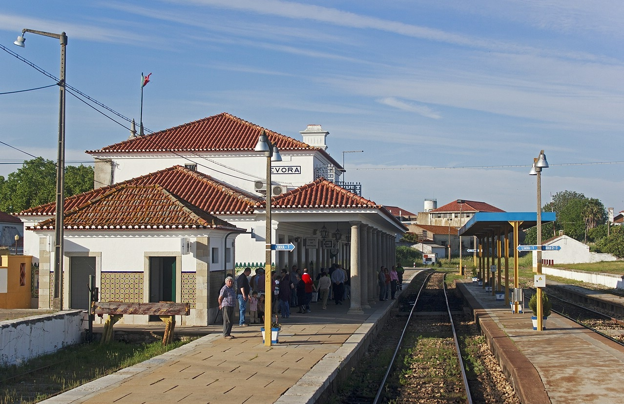 Évora train station on the Évora railway line before being renovated and electrified; Portugal